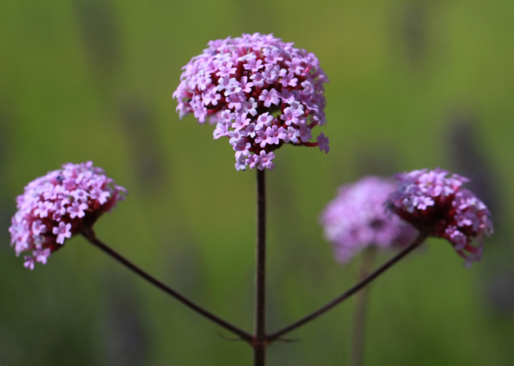 Verbena bonariensis flower in garden on platform 2 of Leamington Spa railway station